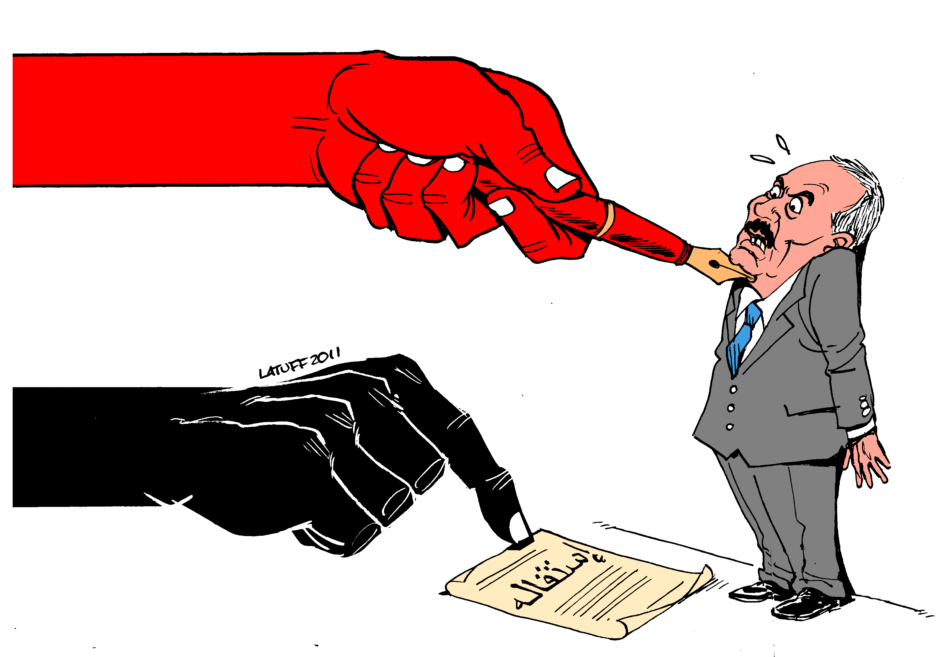 Yemen wants Ali Abdullah Saleh OUT